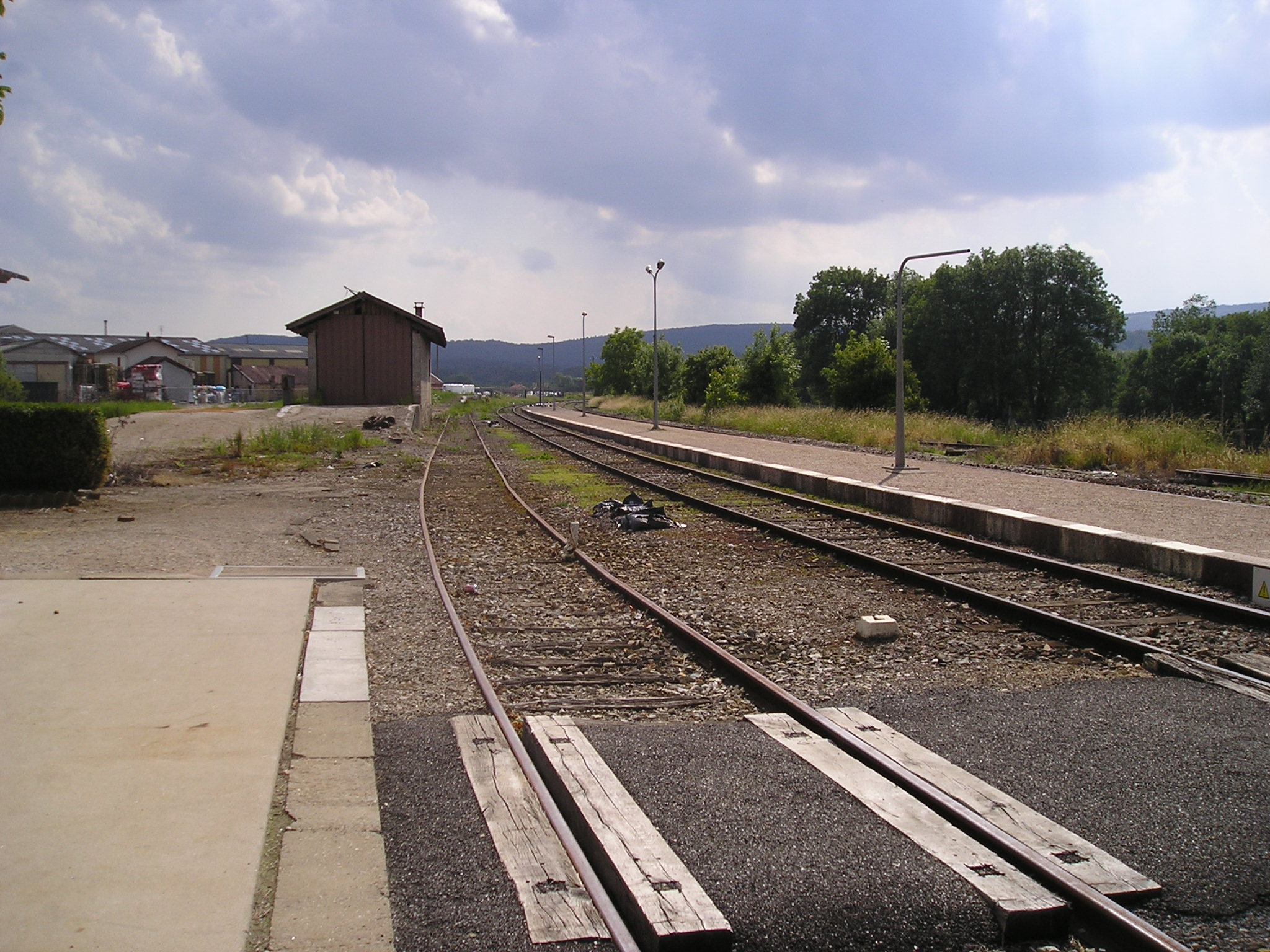 Railroad station of Villereversure